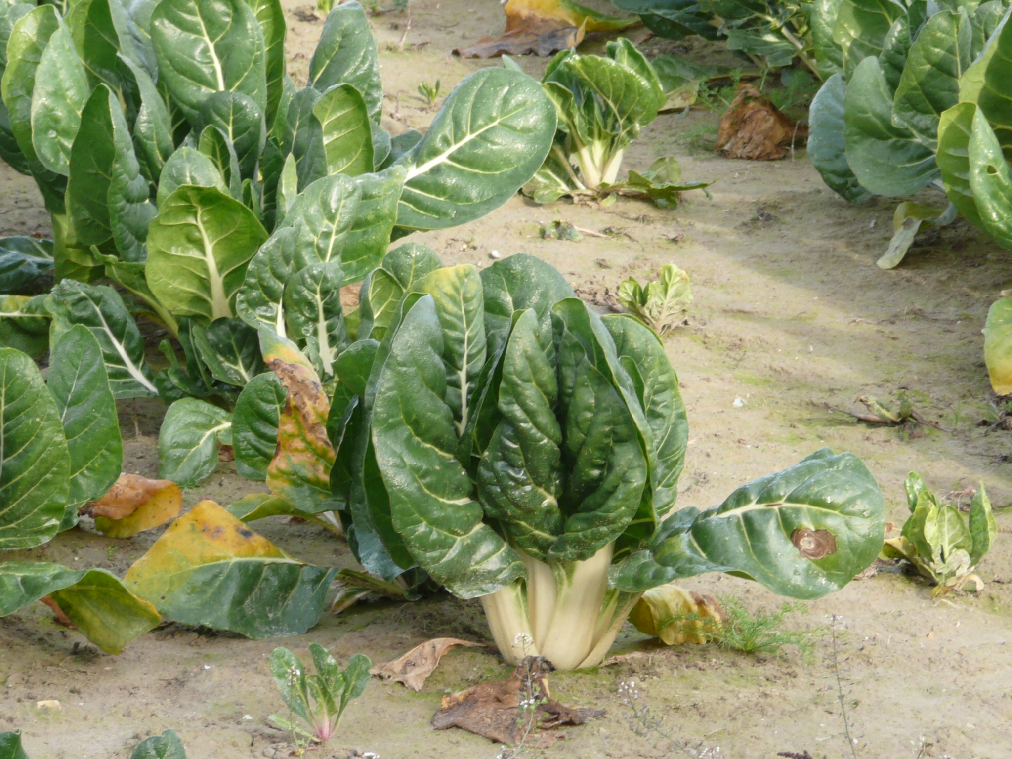 Chard field in Italy